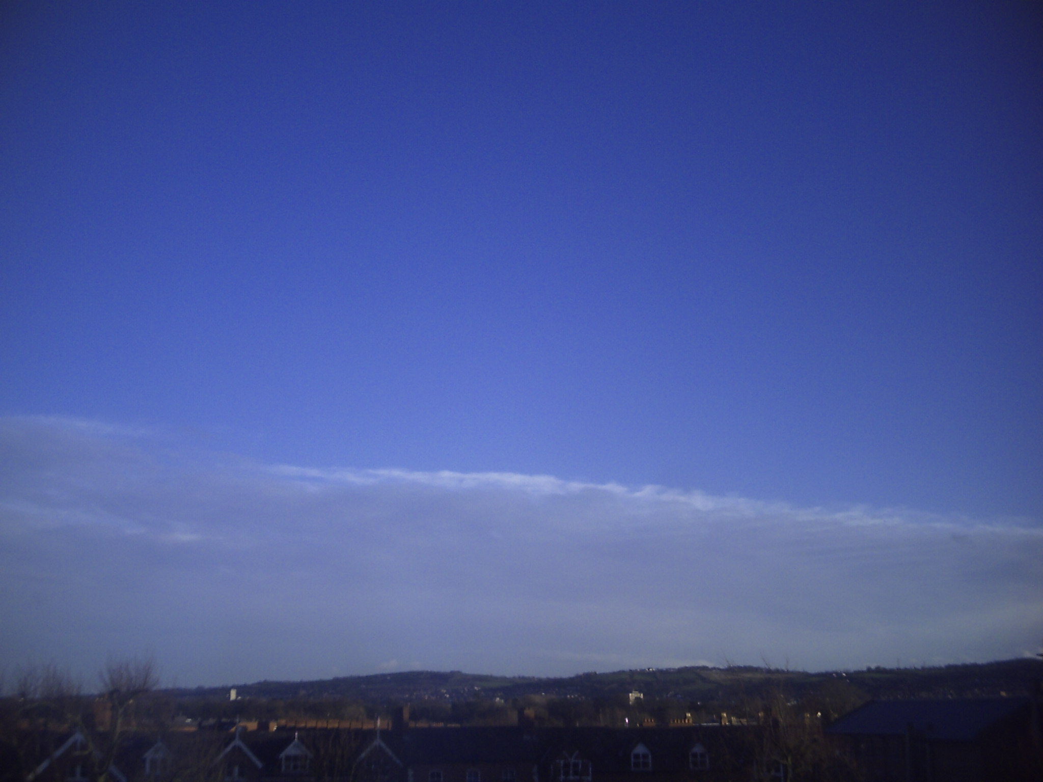 Retreating cold front, illustrating the difference in air types. The retreating cloud type was stratocumulus and some altocumulus after the nimbostratus had gone but in the picture there is evidence of higher clouds above.